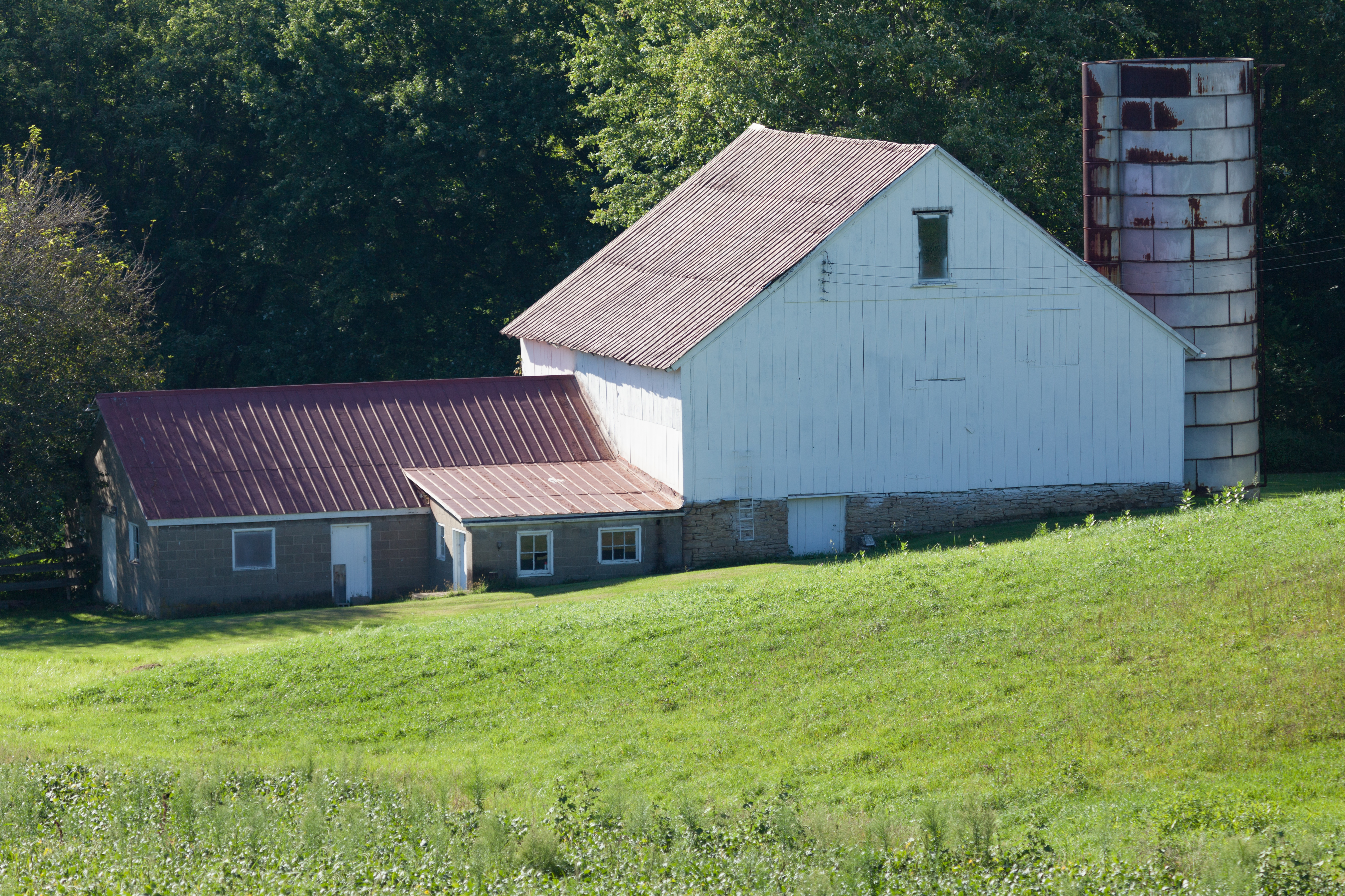 The 1805 timber frame chopping mill at the Huffman Distillery and Chopping Mill historic complex, used to chop and grind grain. The low buildings on the left are 20th century additions.